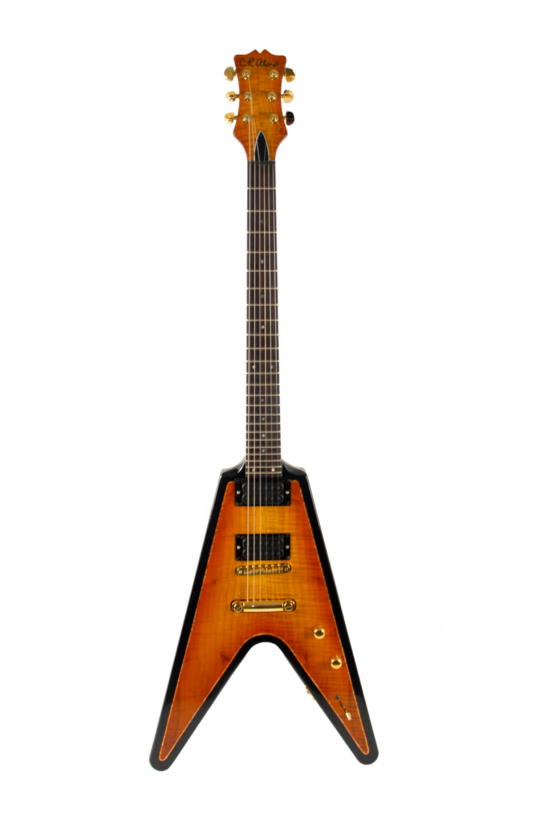 C.R. Alsip Vintage Flying V built for Frank Hannon of Telsa. Photo By: Betsy Edwards